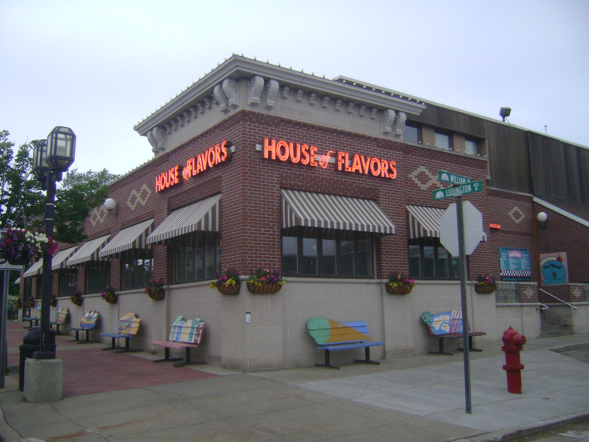 House of Flavors southwest side